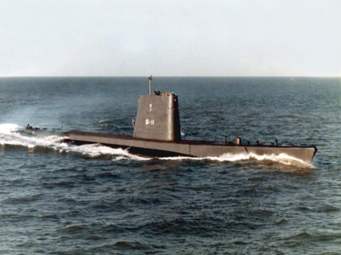 ex-Tilefish (SS-307), taken 12 Oct. 1966 after transfer to Venezuela as ARV Carite (S-11).